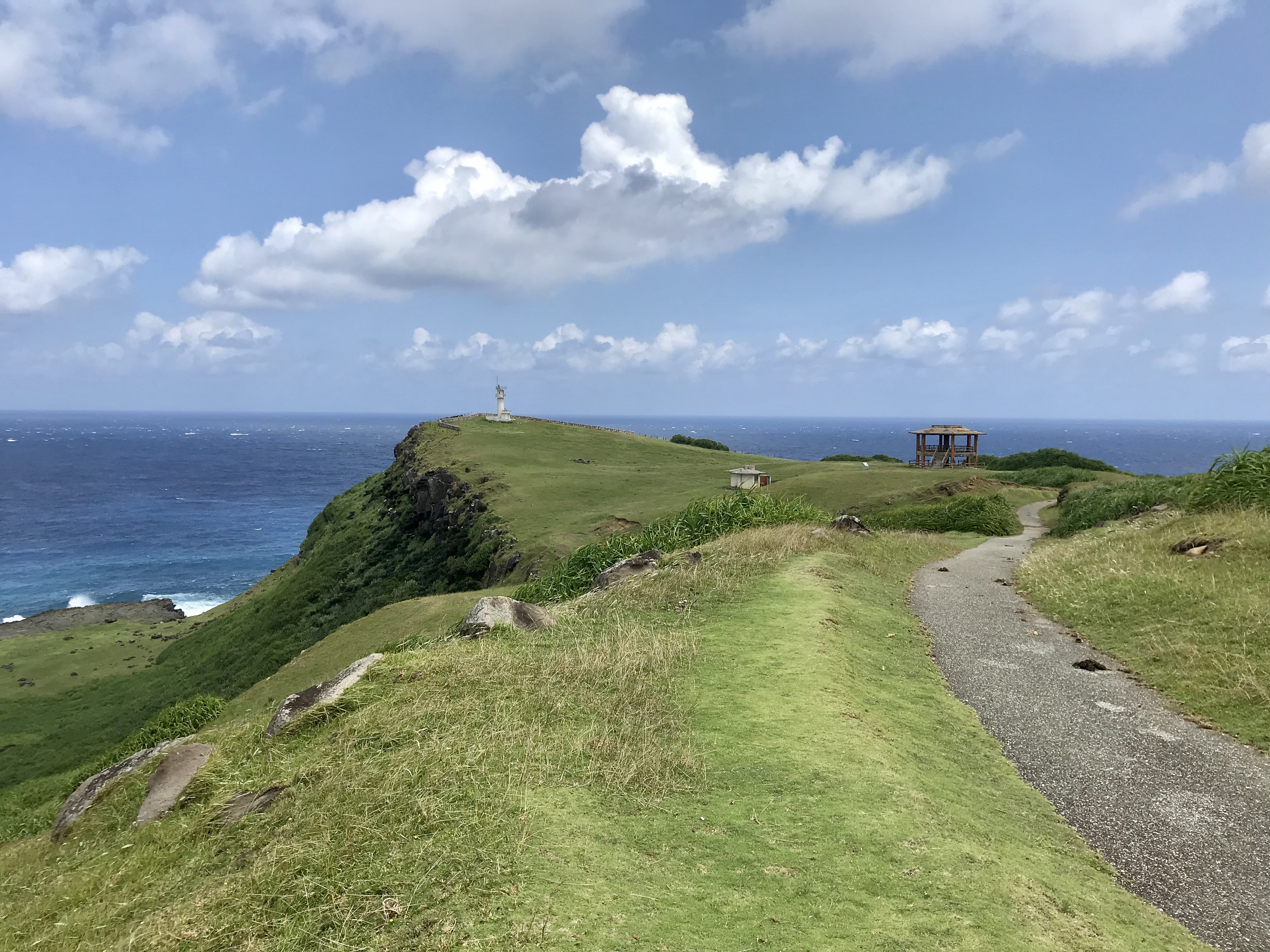 Agarizaki on Yonaguni Island in Yonaguni, Okinawa